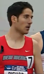 David Bishop after running the anchor leg of the Men's Distance Medley Relay at NCAA DI Indoor Nationals 2011.